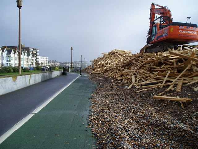 Wood pile beside Cycleway The usual view from the cycle path is blocked by some of the 2,000 tonnes of timber washed up from the wreck of the Greek registered cargo ship "Ice Prince" which sank 25 nautical mile south of Portland, Dorset.